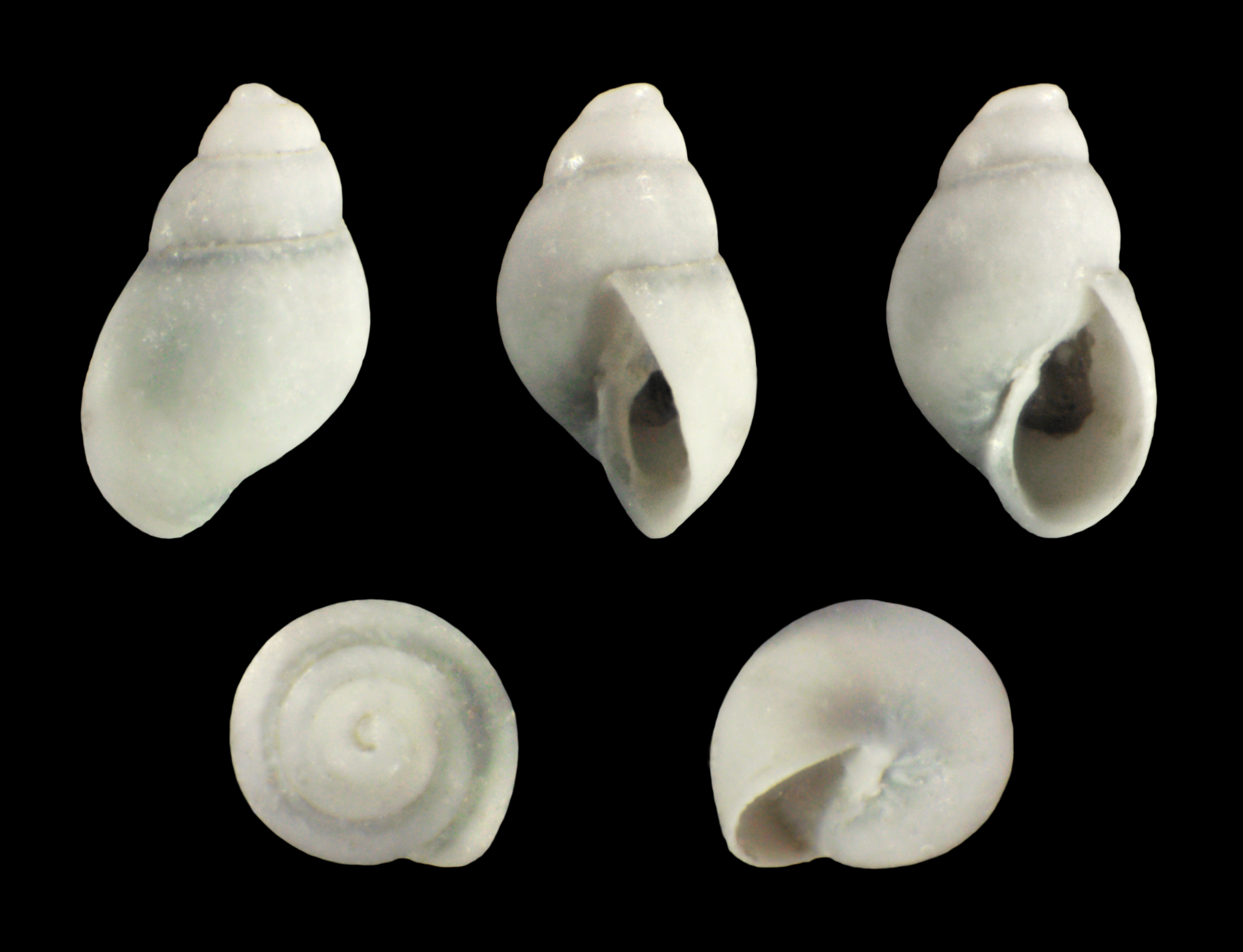 Odostomia scalaris var. nitida Alder, 1844, Length 0.16 cm; Originating from Sankt Peter-Ording, Germany; Shell of own collection, therefore not geocoded.